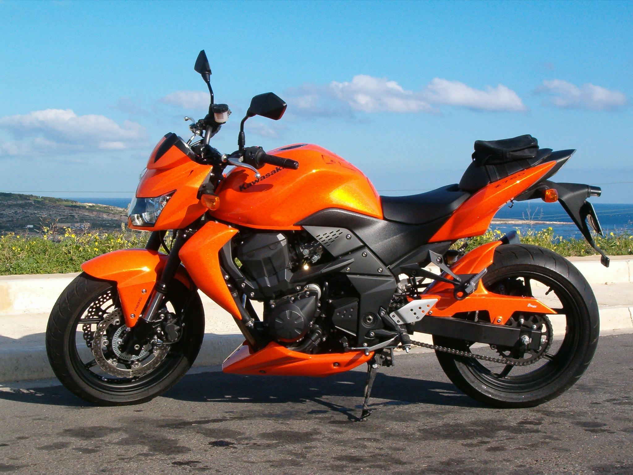 2008 Kawasaki Z750 ABS, Pearl Wildfire Orange